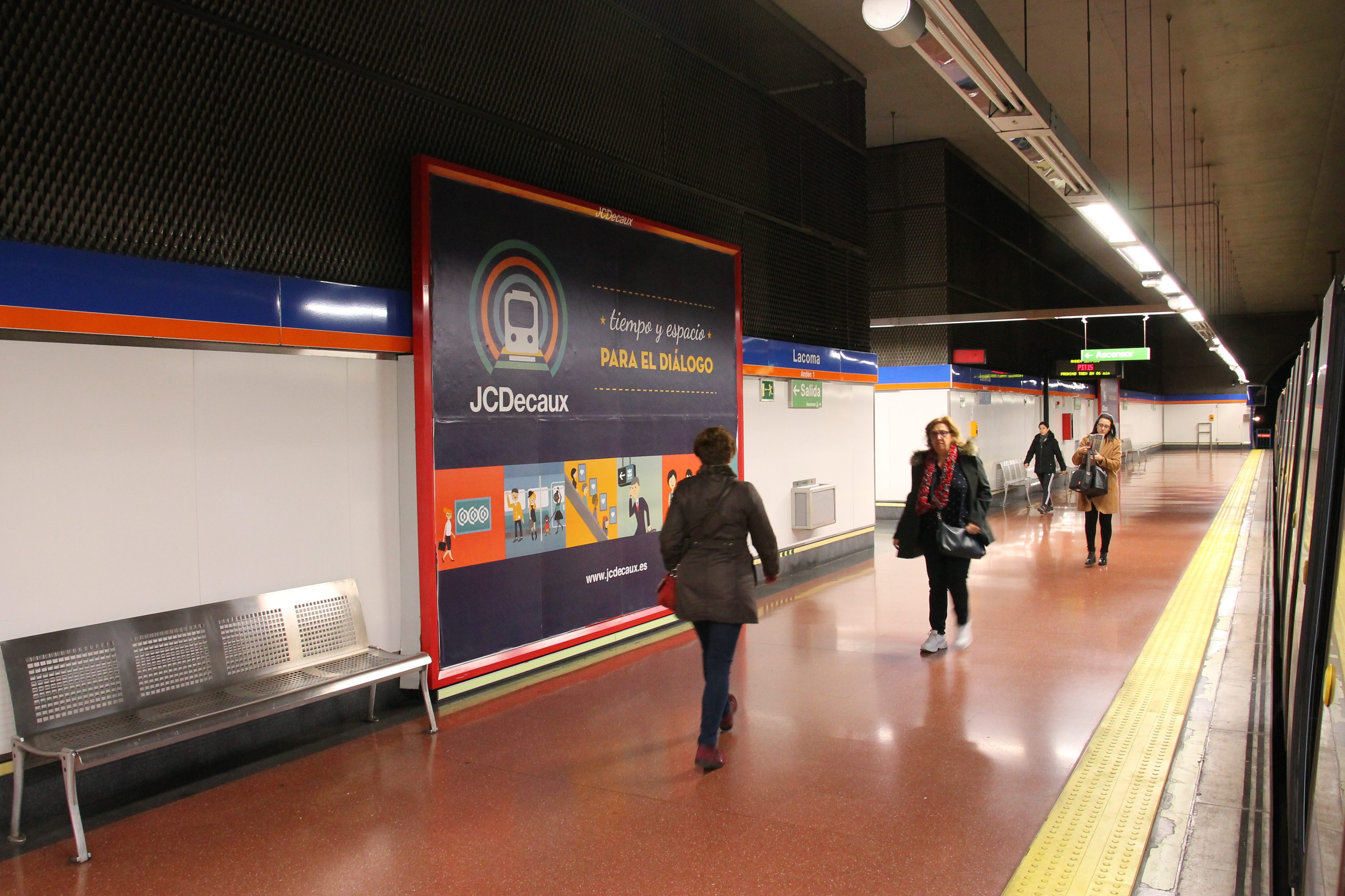 Estación de Lacoma